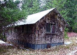 Buck Harbeson's cabin as it stands 2003